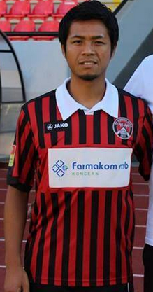 Shohei Okuno while in Sloboda